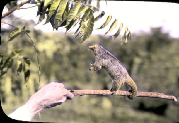 Silky Anteater (Cyclopes didactylus) balanced on a stick held by a man's arm. 1928. Name of Expedition: Crane Pacific Expedition Participants: Sidney Nichols Shurcliff, Karl P. Schmidt, Cornelius Crane, William L. Moss, Albert W. Herre Expedition Start Date: c. 11/28/1928 Expedition End Date: c. 8/12/1929 Purpose or Aims: Zoology (Birds, mammals, fish, reptiles, invertebrates) Location: Central America, Panama, Barro Colorado Island Original material: Hand-colored Lantern Slide Digital Identifier: A105150_crane22_2c